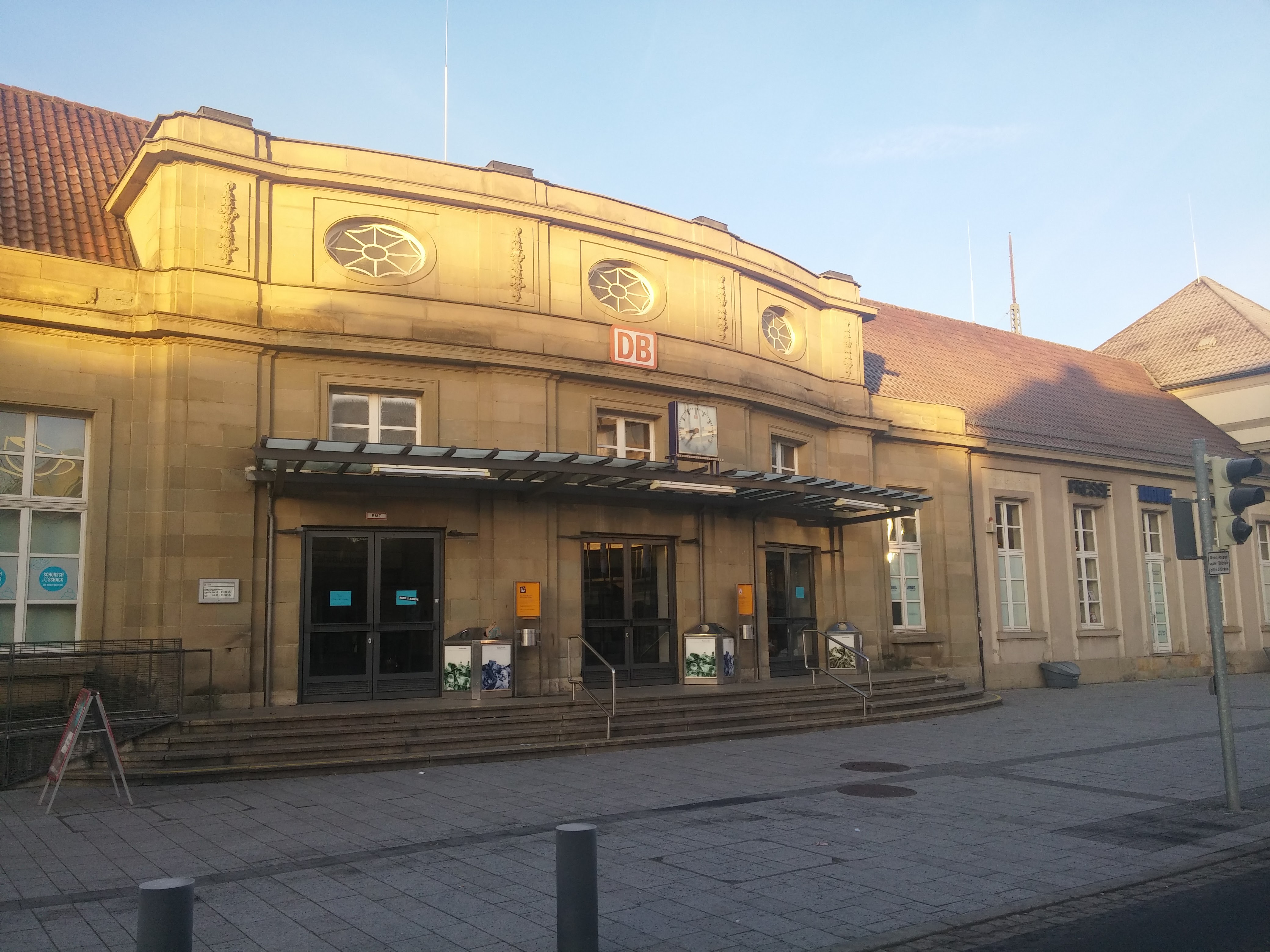 Coburg train station (Dec 2016). View from the Bahnhofsplatz